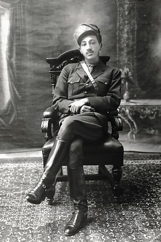 Studio photograph of Mohammad Zâher Khân, son of Mhd Nâder Shâh, in military uniform, seated. Accession number: 2006.1387 Inventory number: NA 28